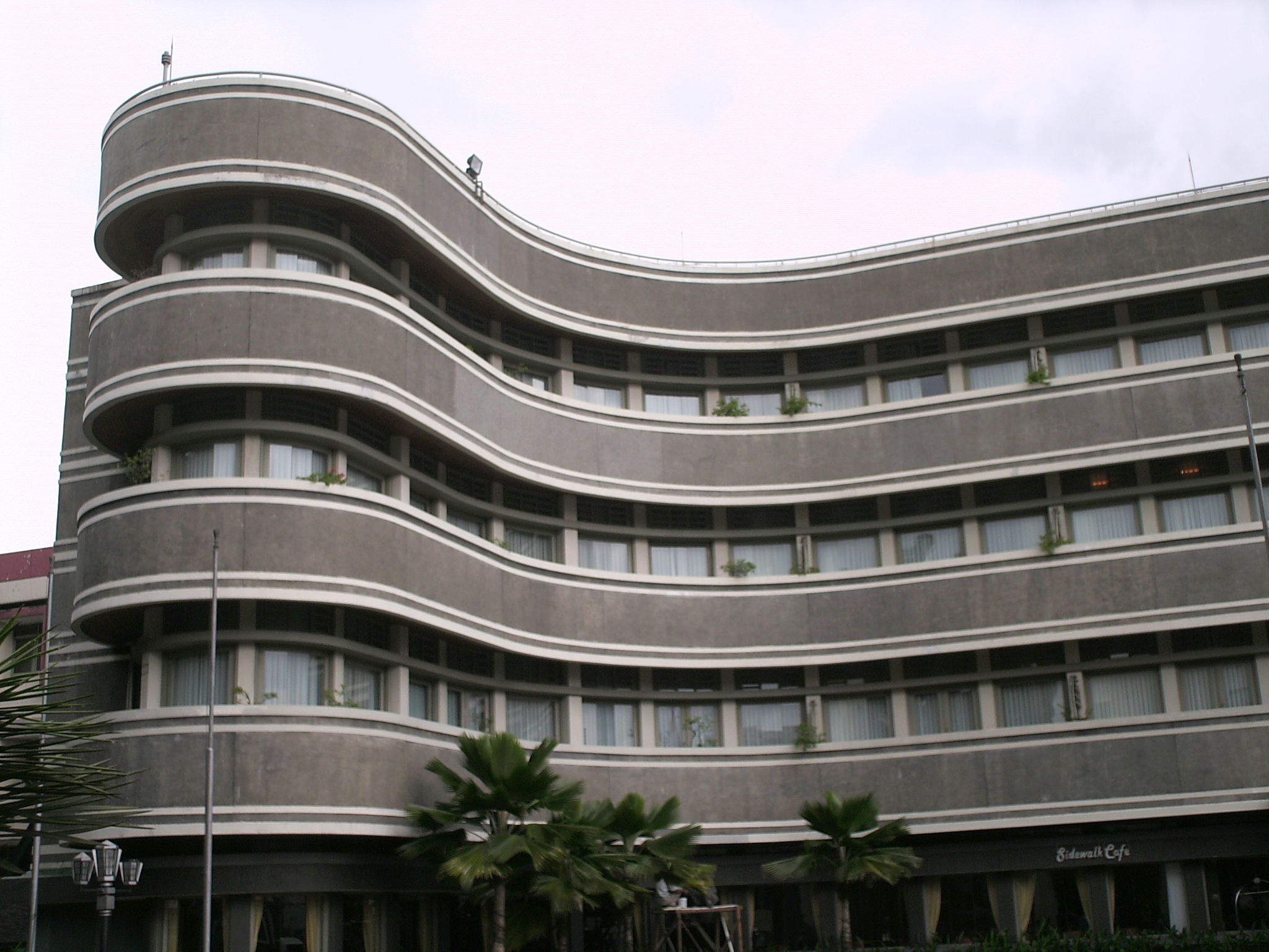 The Savoy Homann Hotel at Bandung showing the Albert Aalbers' oceanwave style at the horisontal facade.